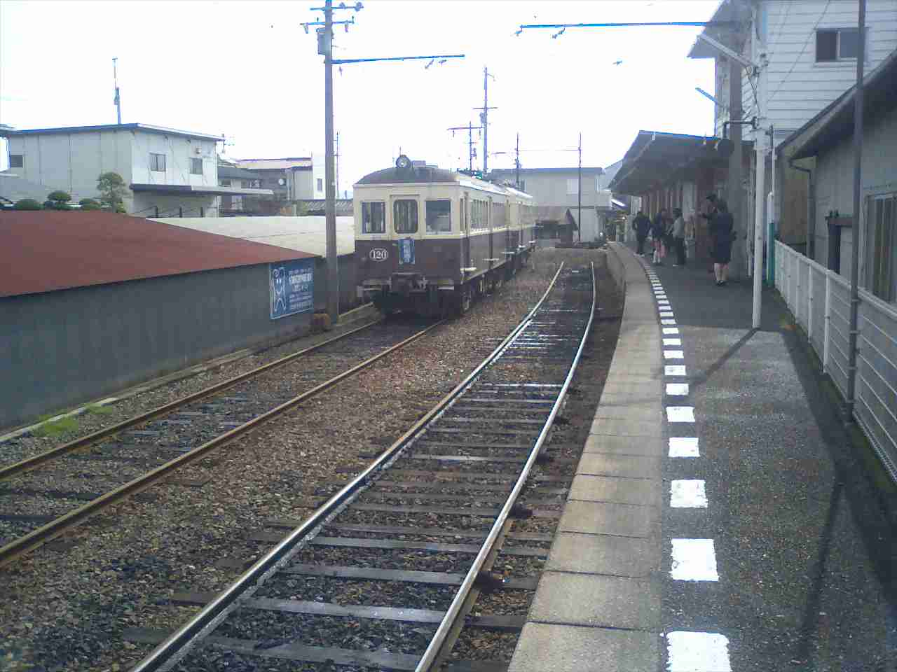 Kotoden Nagao Station platform.